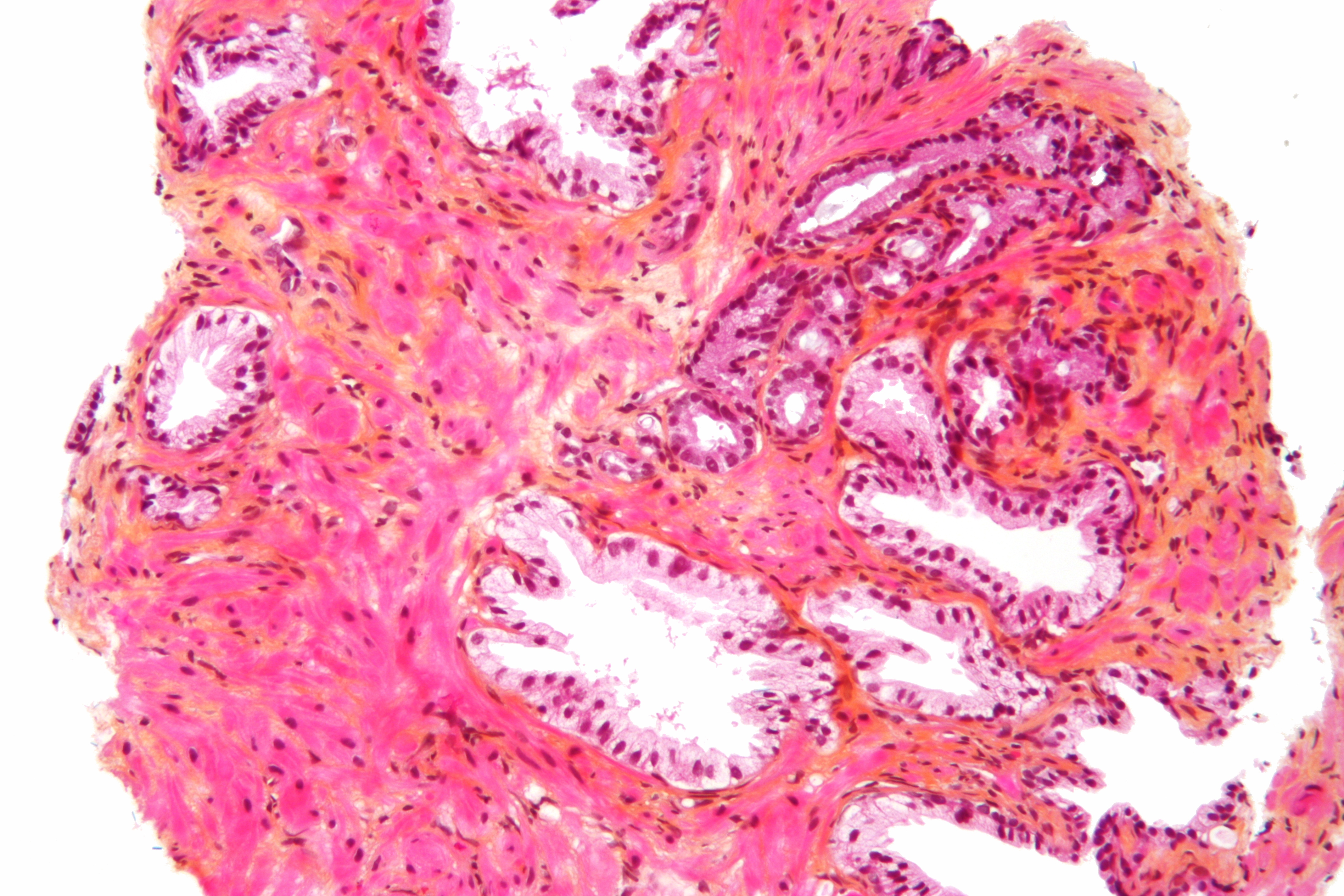 High magnification micrograph of prostate adenocarcinoma. Needle core biopsy. HPS stain. See also Image:Prostate adenocarcinoma 2 intermed mag hps.jpg - same case, intermediate magnification. Image:Prostate adenocarcinoma intermed mag hps.jpg - same case, different core. Image:Perineural invasion prostate high mag.jpg - same case, view demonstrating perineural invasion.